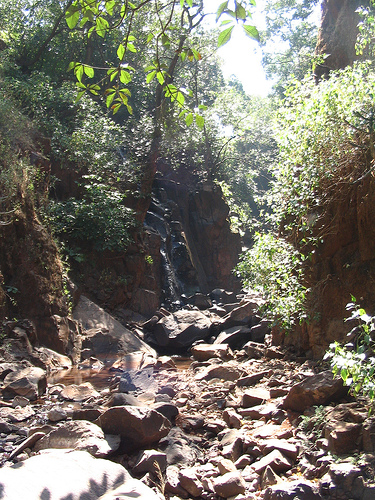 Pavankhind